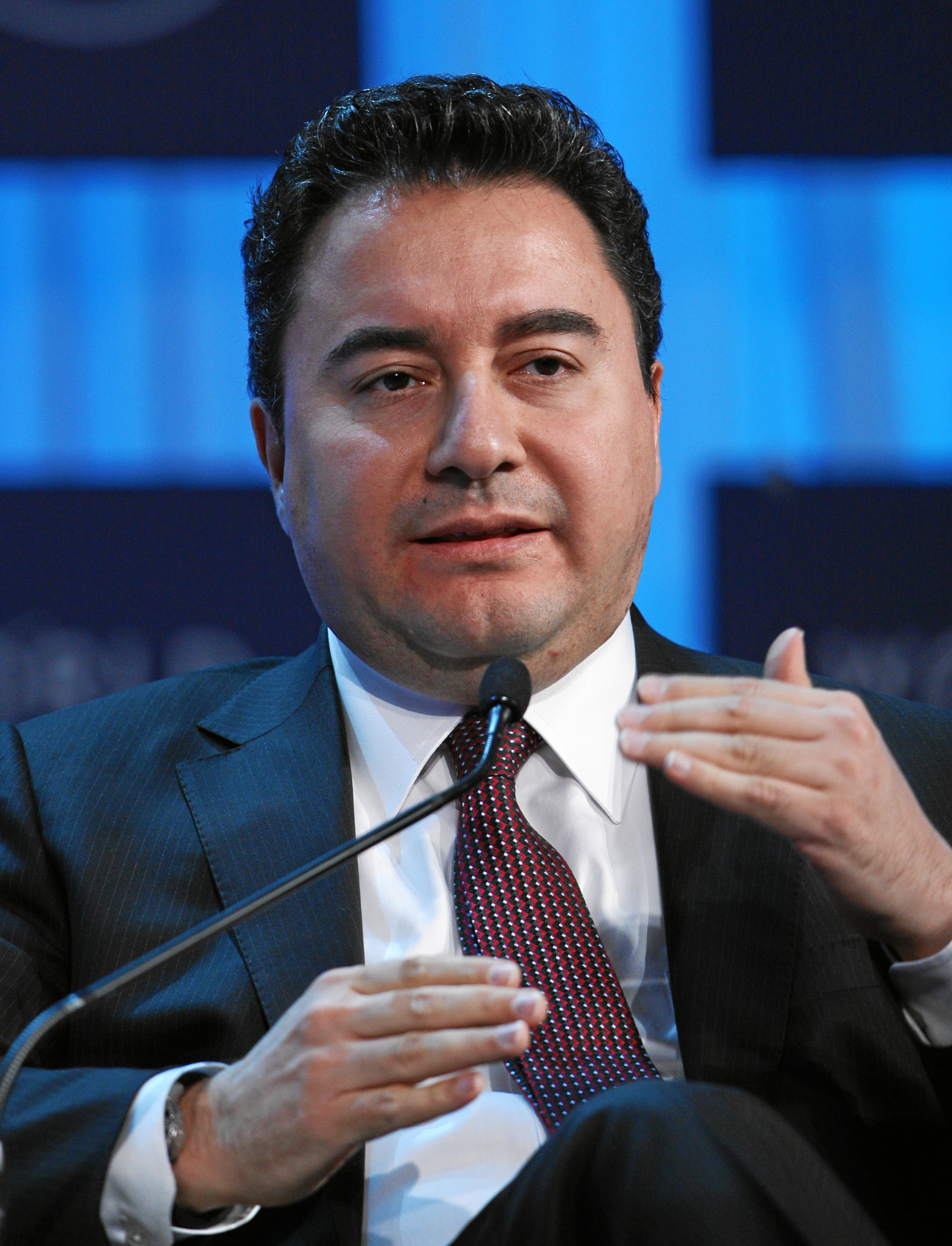 DAVOS/SWITZERLAND, 28JAN12 - Ali Babacan, Deputy Prime Minister for Economic and Financial Affairs of Turkey is captured during the session 'Global Economic Outlook 2012' at the Annual Meeting 2012 of the World Economic Forum at the congress centre in Davos, Switzerland, January 28, 2012. Copyright by World Economic Forum by Sebastian Derungs